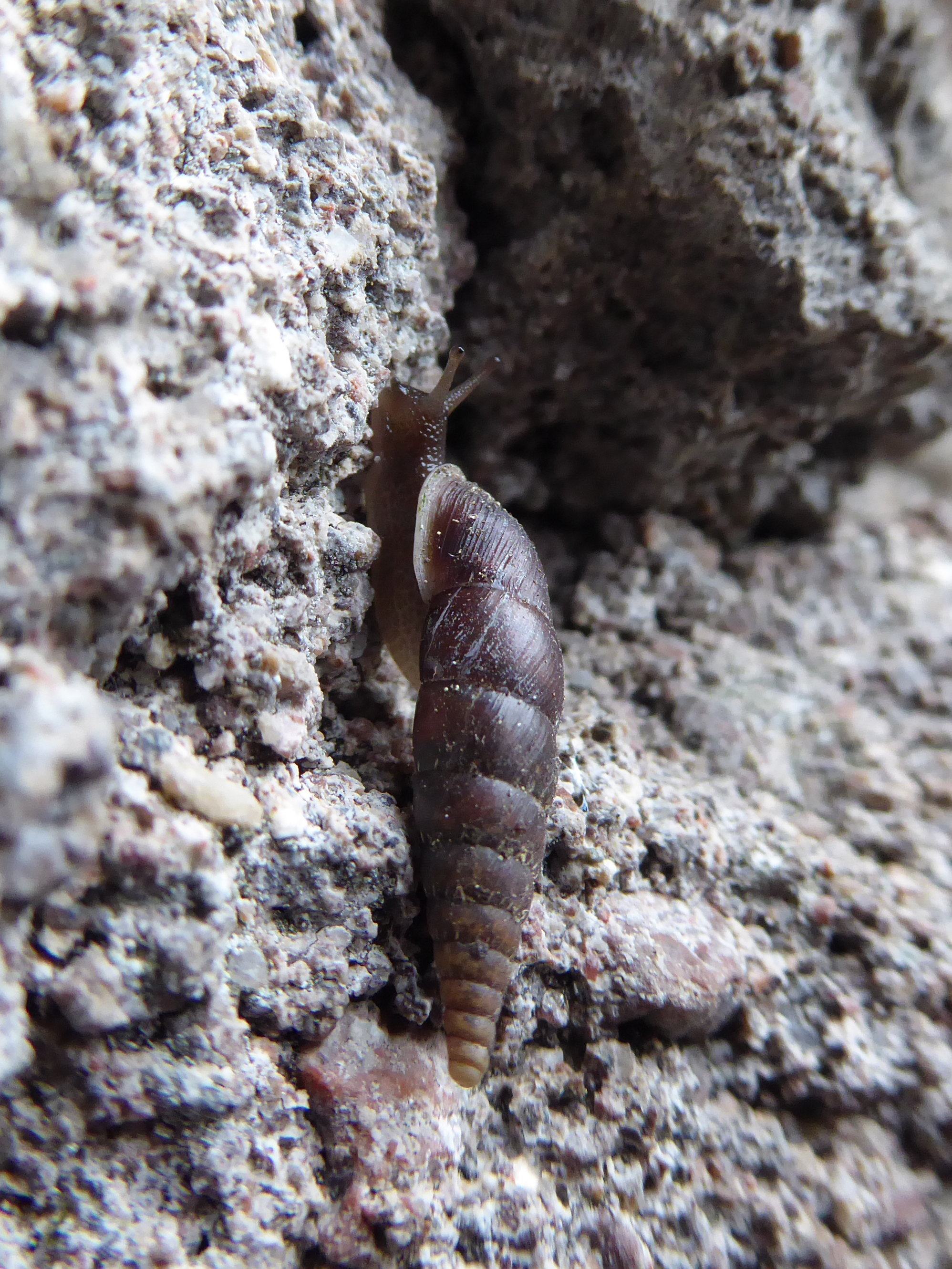 A Charpentieria itala photographed on a wall in Piazzo (Segonzano, Trentino, Italy)